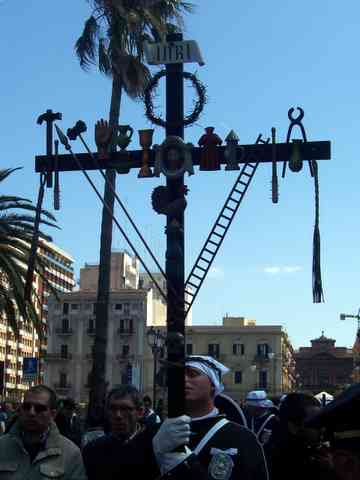 Troccola (Taranto)